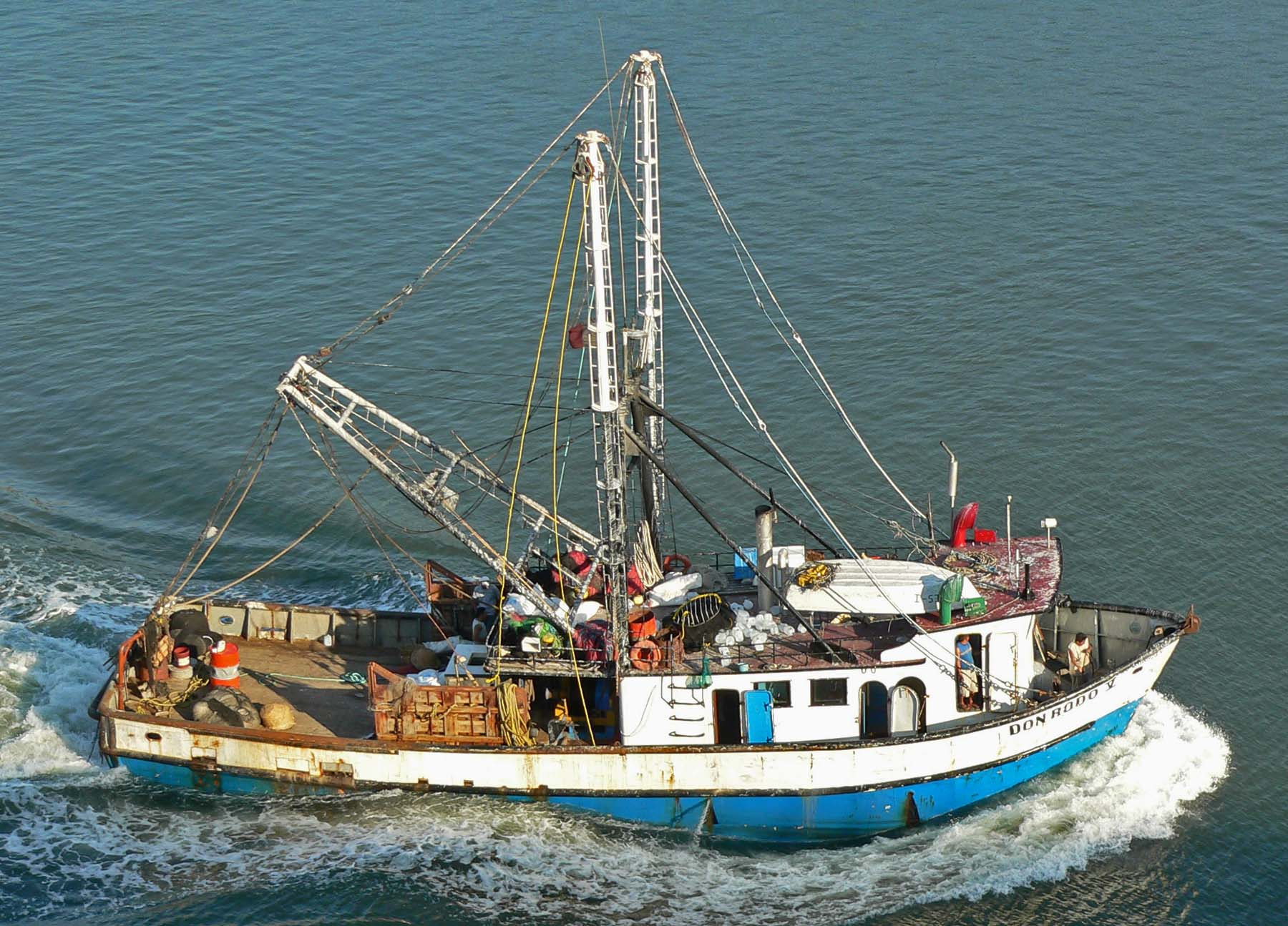 Photo of fishing boat Don Rodo V at Mazatlan